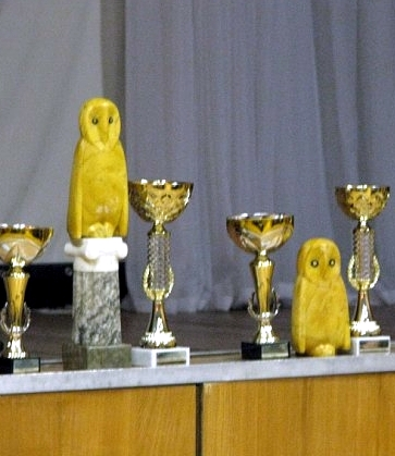 Stone sculptures of Owls made in tradition of Permian animal style by S.S.Krivoshekov and situated among festival prizes